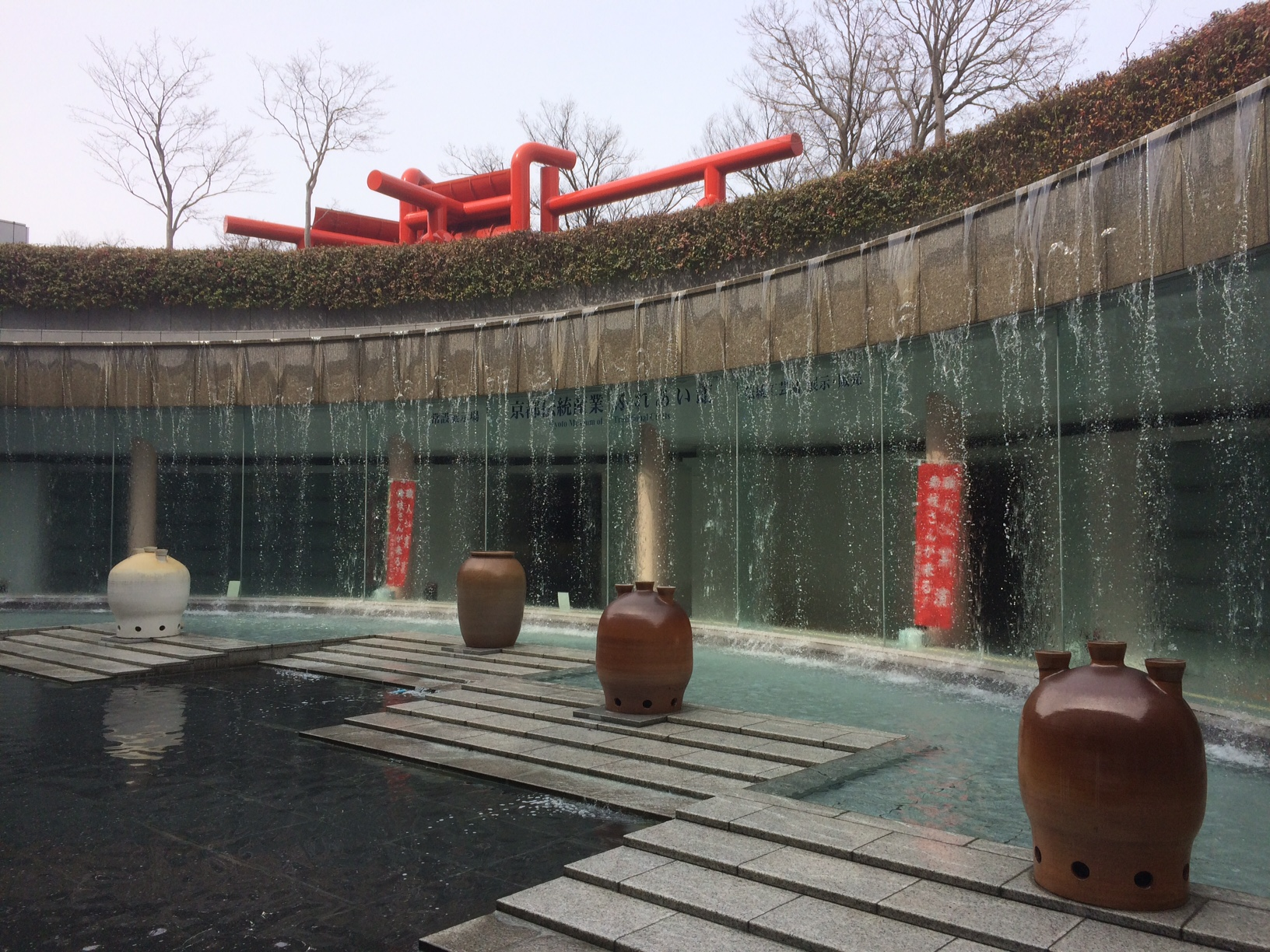 kyoto city Miyakomese